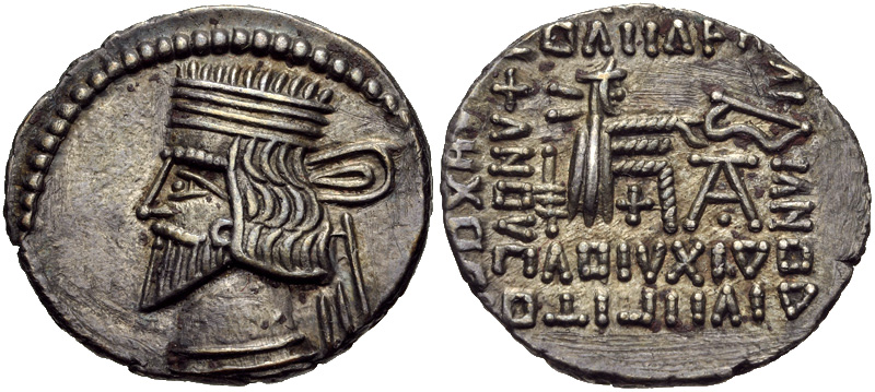 Coin of Vologases III, a Parthian ruler.